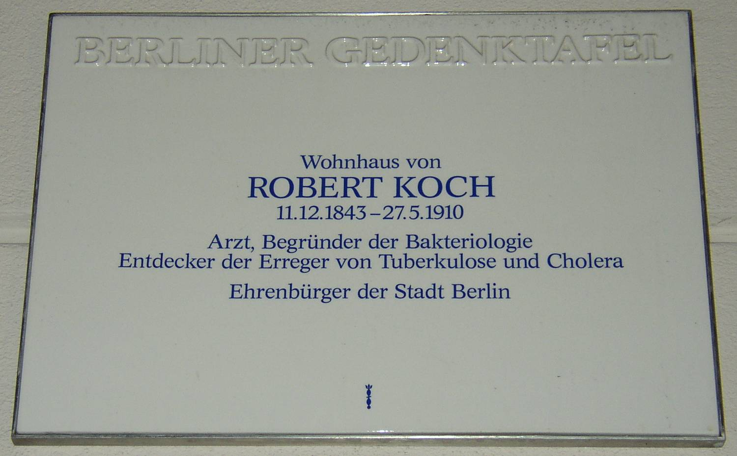 Berlin memorial plaque for Robert Koch in Berlin-Charlottenburg, Germany